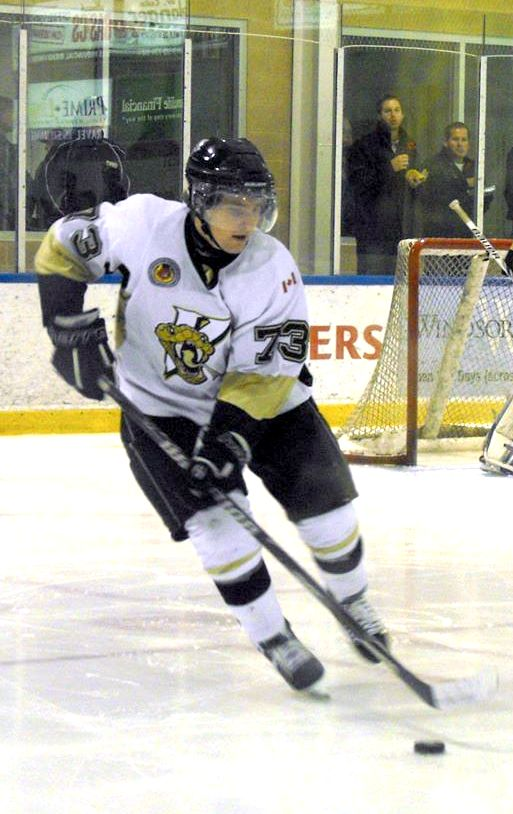 This photo was taken by Devan Mighton during the 2013-14 GOJHL season.